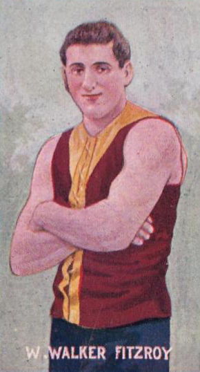 Cigarette card of Bill Walker from the Sniders & Abrahams 1906 series